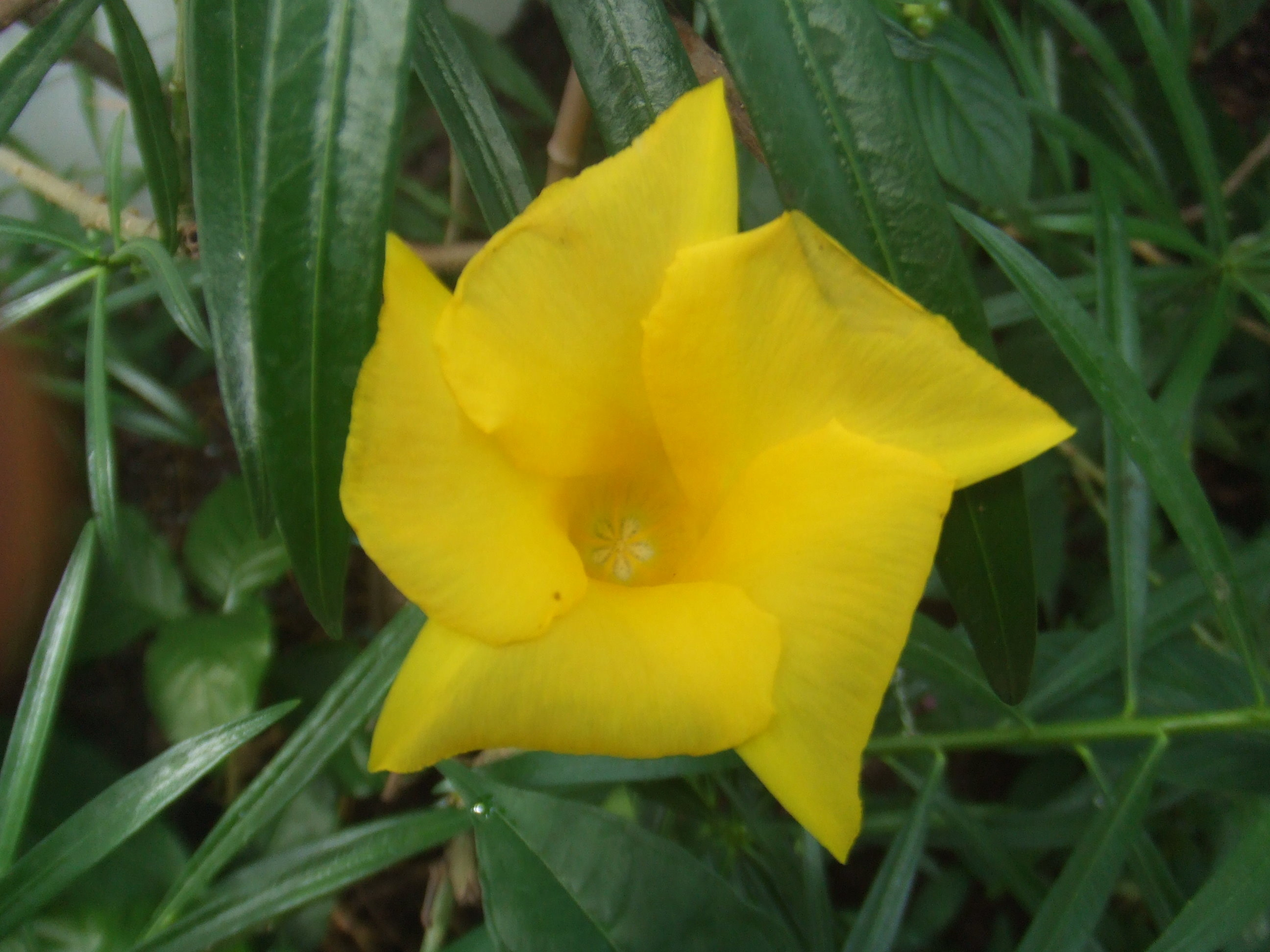 Thevetia peruviana, picture taken at the Passiflorahoeve in Harskamp, The Netherlands